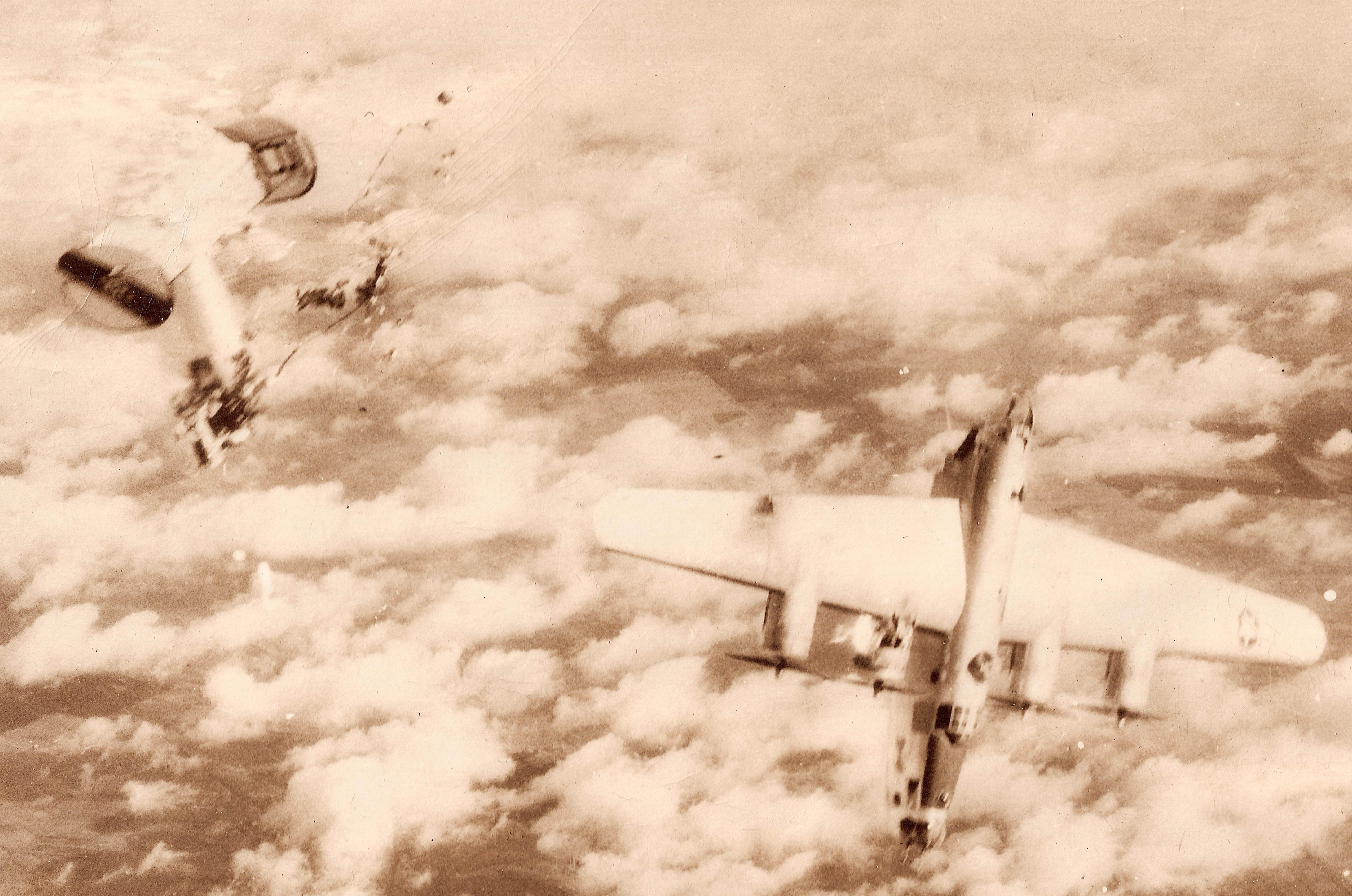 A B-24M Liberator after being shot down by a Messerschmitt Me 262 in April, 1945. The entire crew perished except for Charles E. Culp Jr, who managed to get out of the bomb bay and deploy his parachute at 2,000 feet.